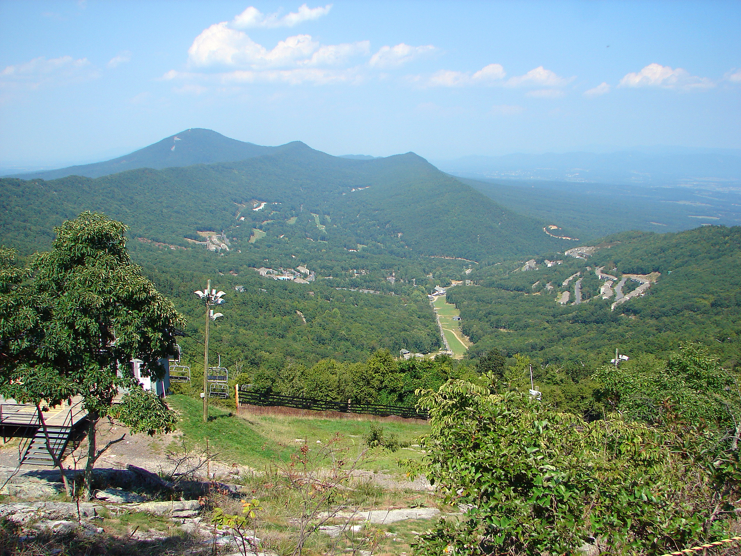 View of Massanutten Ski Resort from the peak of Massanutten Mountain, Virginia, USA.